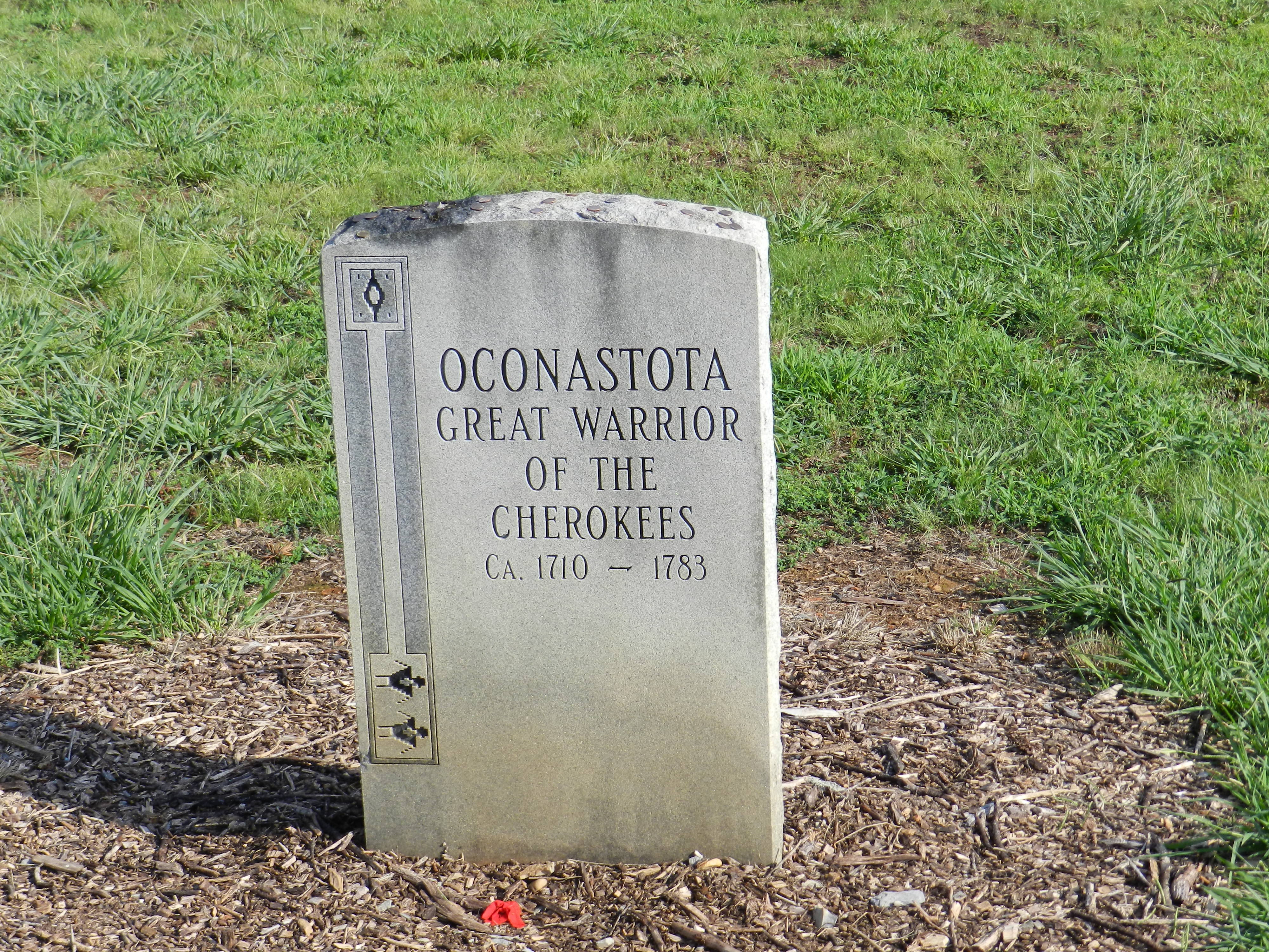 Memorial stone on the grave of Oconostota, once principal cheif of the Cherokees, NeXT to the Chota Monument.